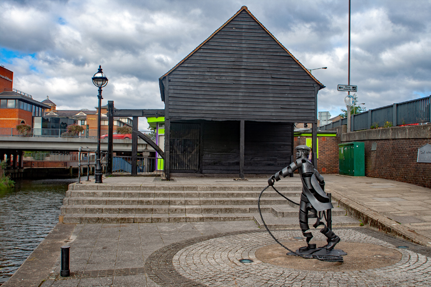 Guildford wharf on the River Wey. The wharehouse has a rare example of a treadmill operated crane